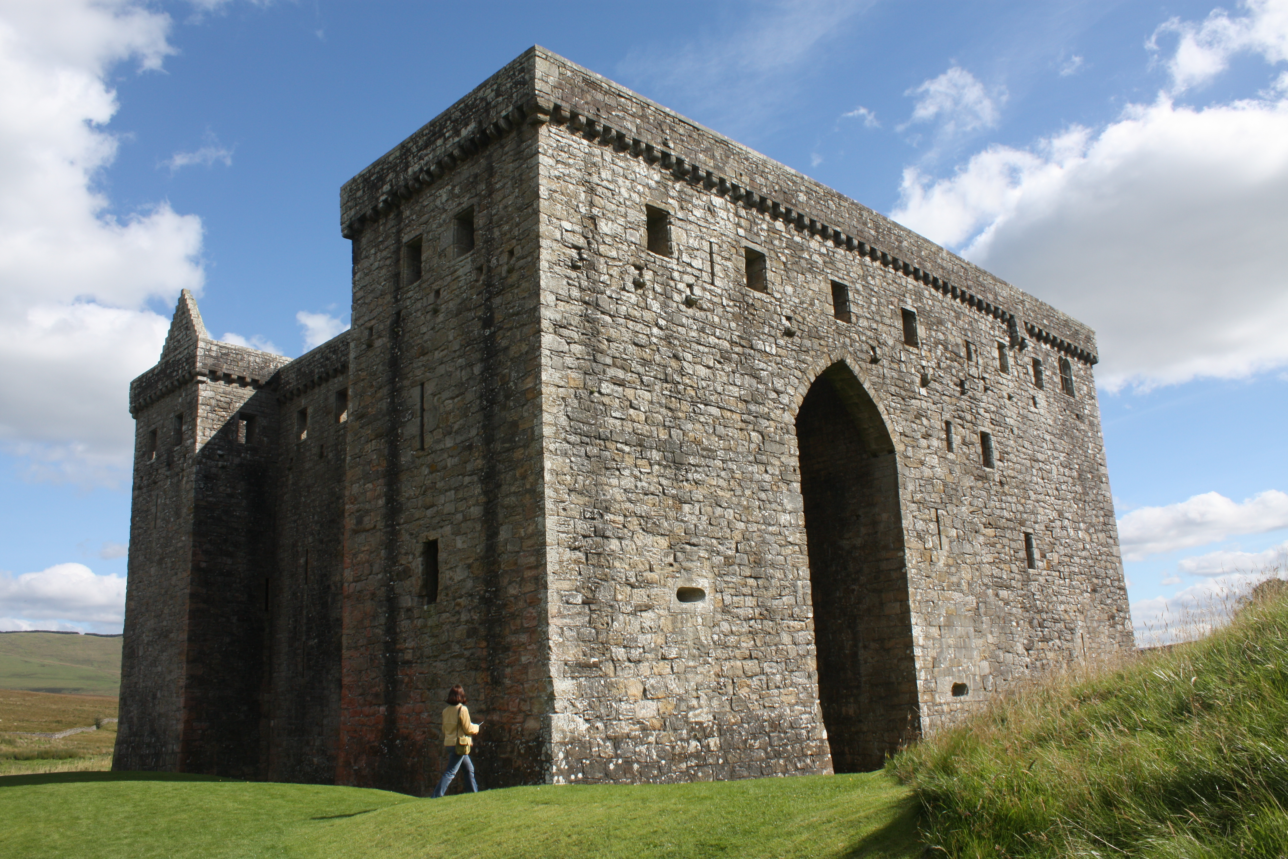 Hermitage Castle, Scottish Borders, Scotland.